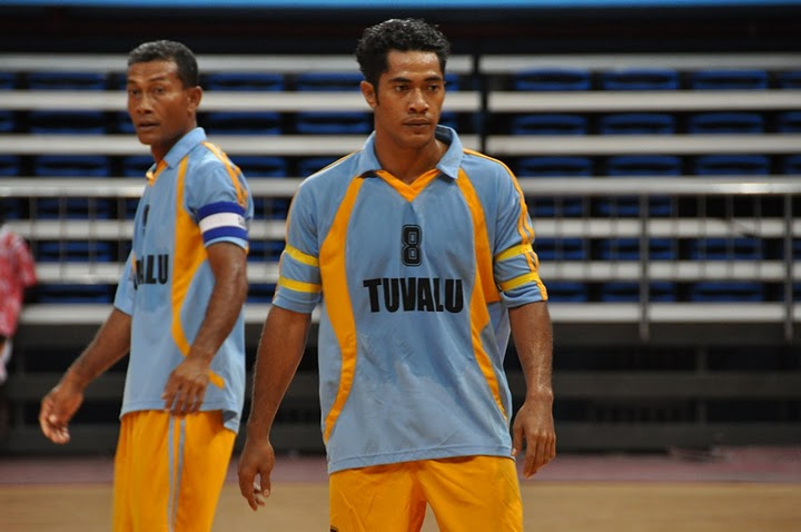 Tuvalu Futsal 02